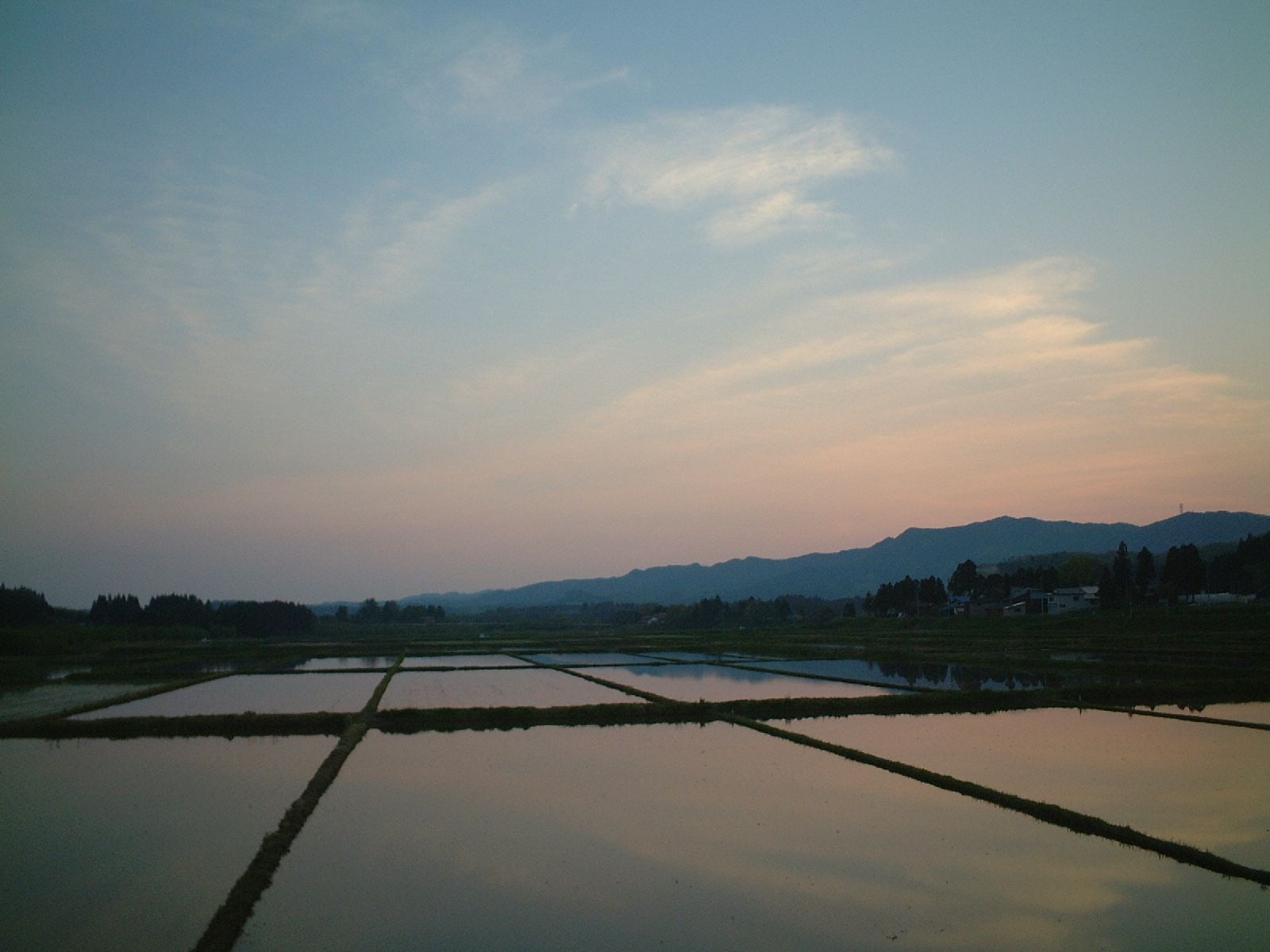 Paddy fields in Akita, Japan.